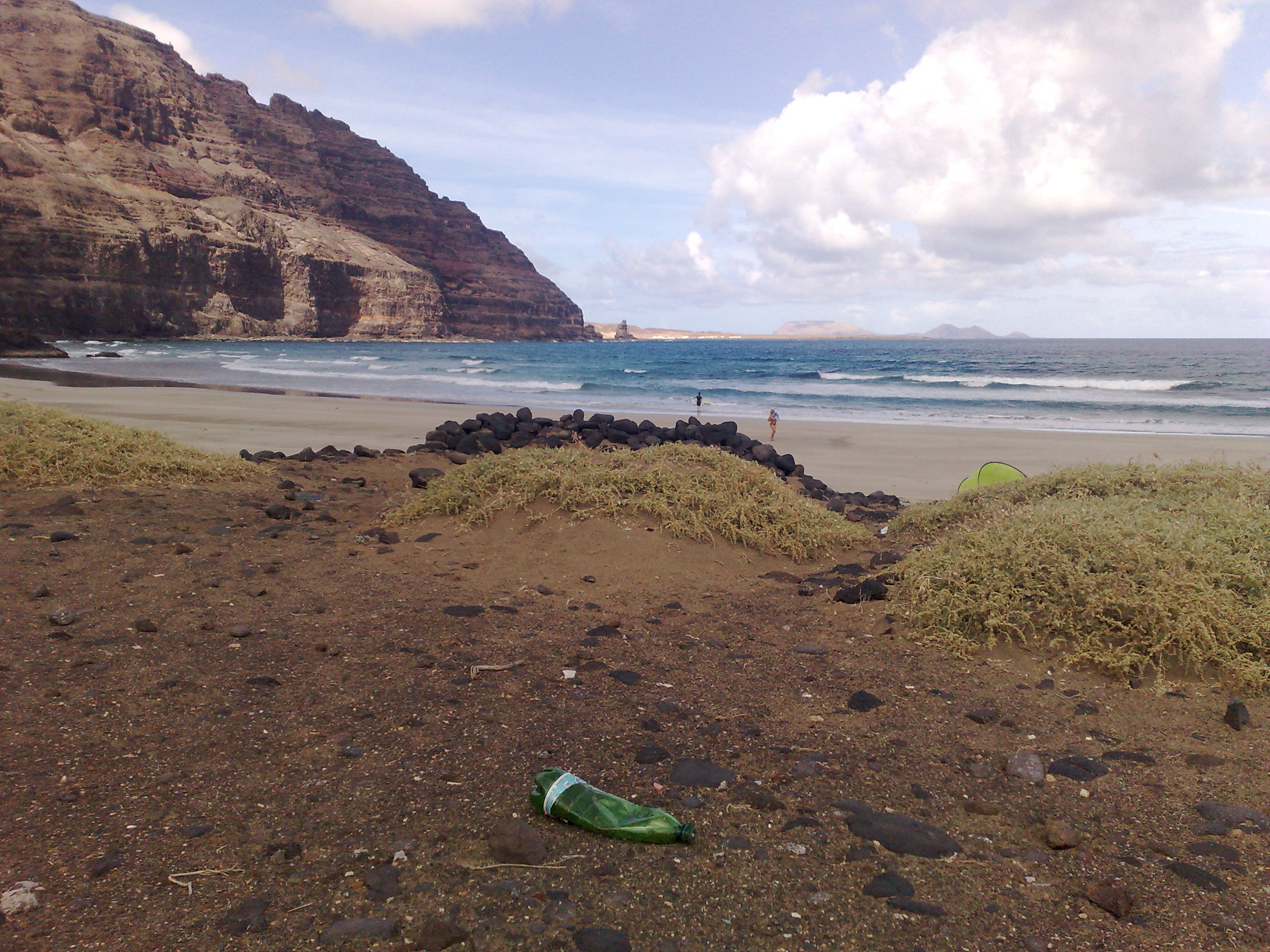 La Cantería beach, near Órzola, Lanzarote, Canary Islands.